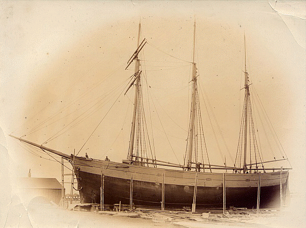 The schooner Happy Harry seen just before her launch, which was on 5 July 1894.